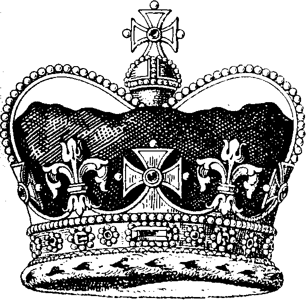 Coronet of the Prince of Wales